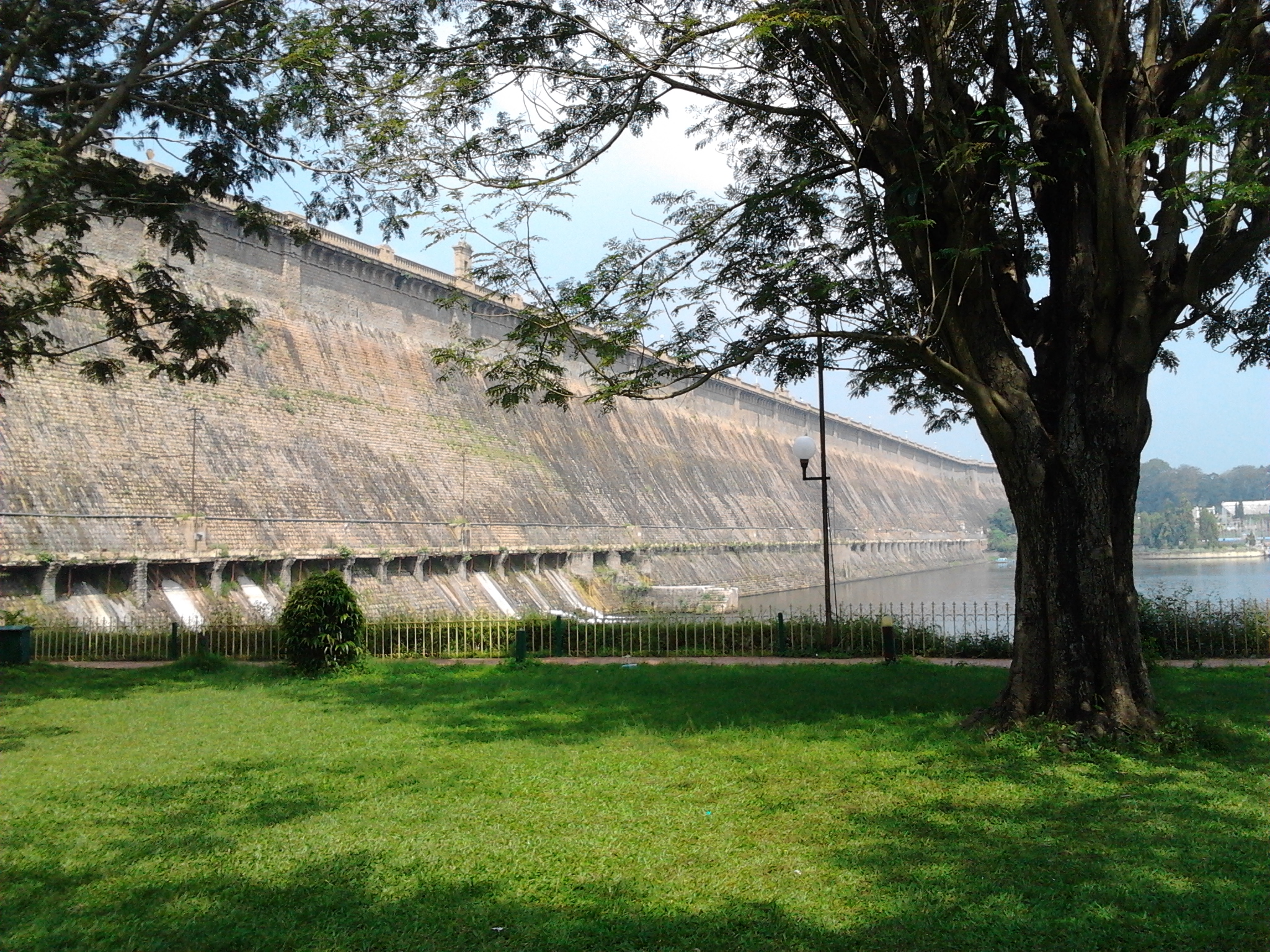 Vrindavan Gardens, Krishana Raja Sagara, Mysore